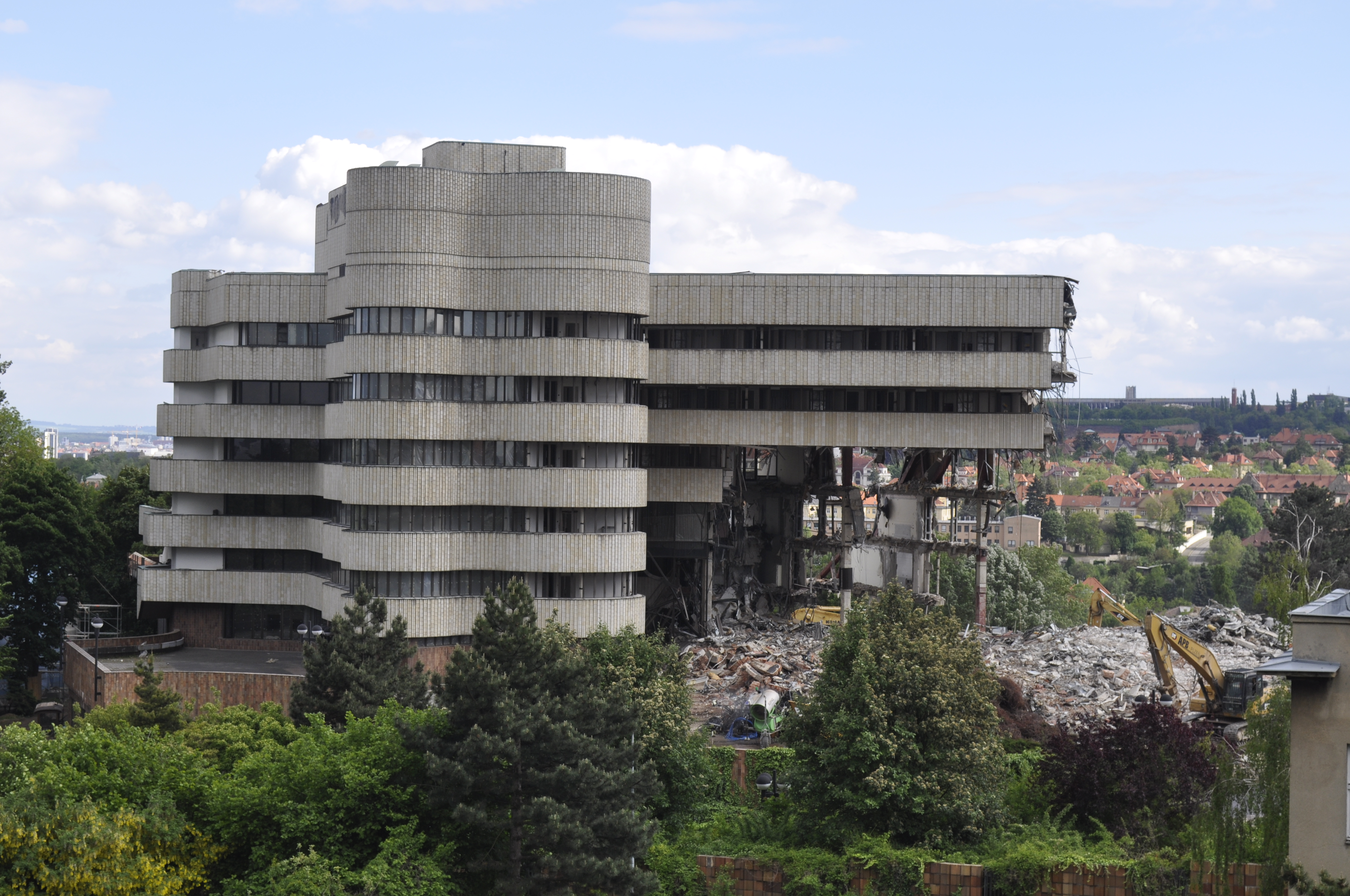 Demolition prograss, May 14, 2014